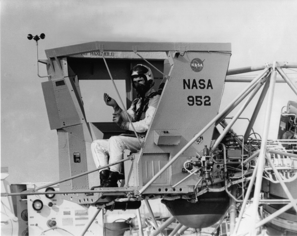 NASA astronaut Gene Cernan in the cabin of NASA 952, the only Lunar Landing Training Vehicle (LLTV) to survive to the end of the Apollo program. NASA photo in public domain.